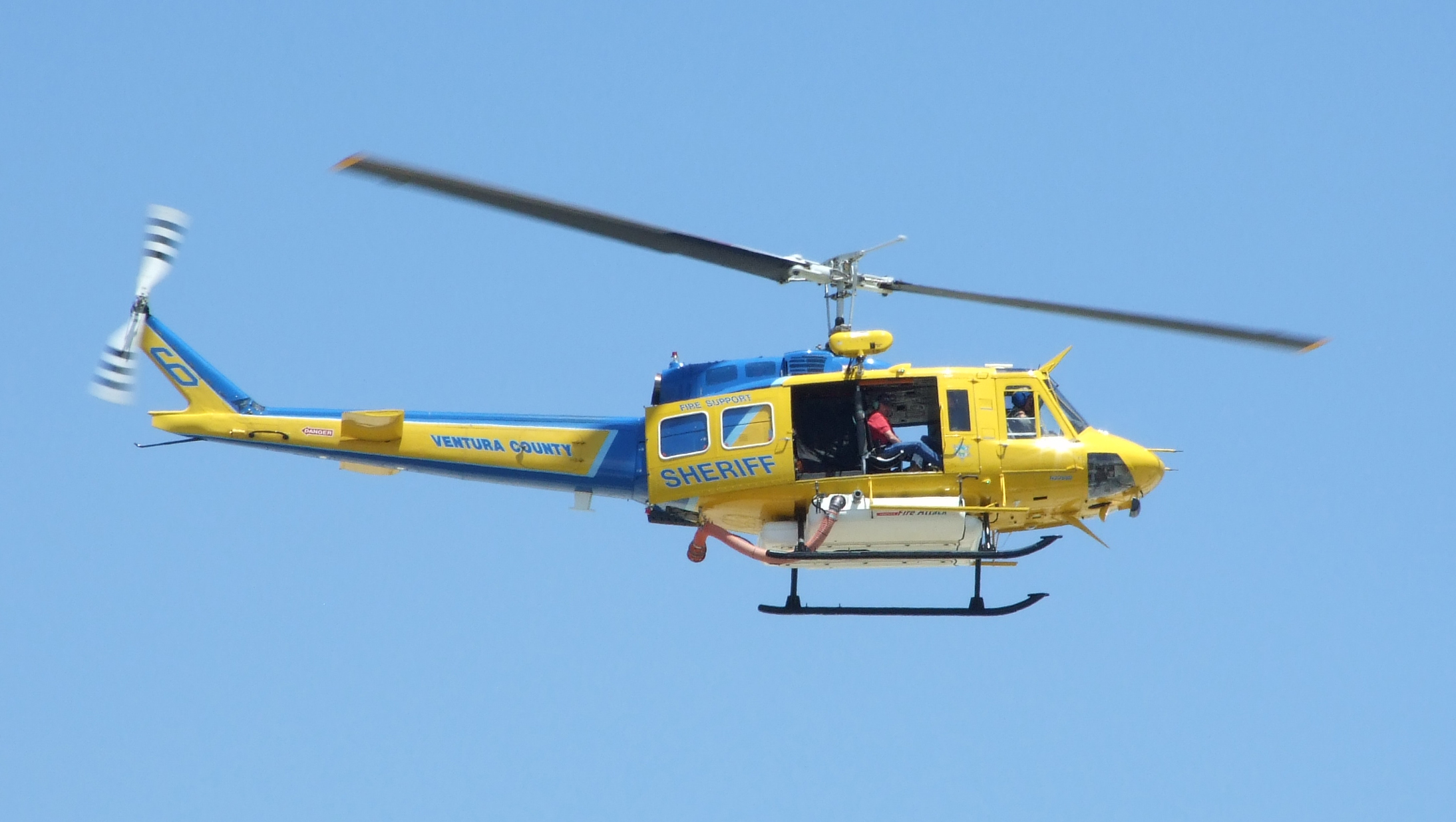 Bell HH-1H Iroquois (205), also called "Huey", "N205SD" of the Ventura County Sheriff Department Fire Support Air Unit at Camarillo Airport (California).